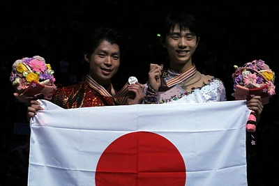 Yuzuru Hanyu(1st) and Tatsuki Machida(2nd) at the 2014 World Championships.